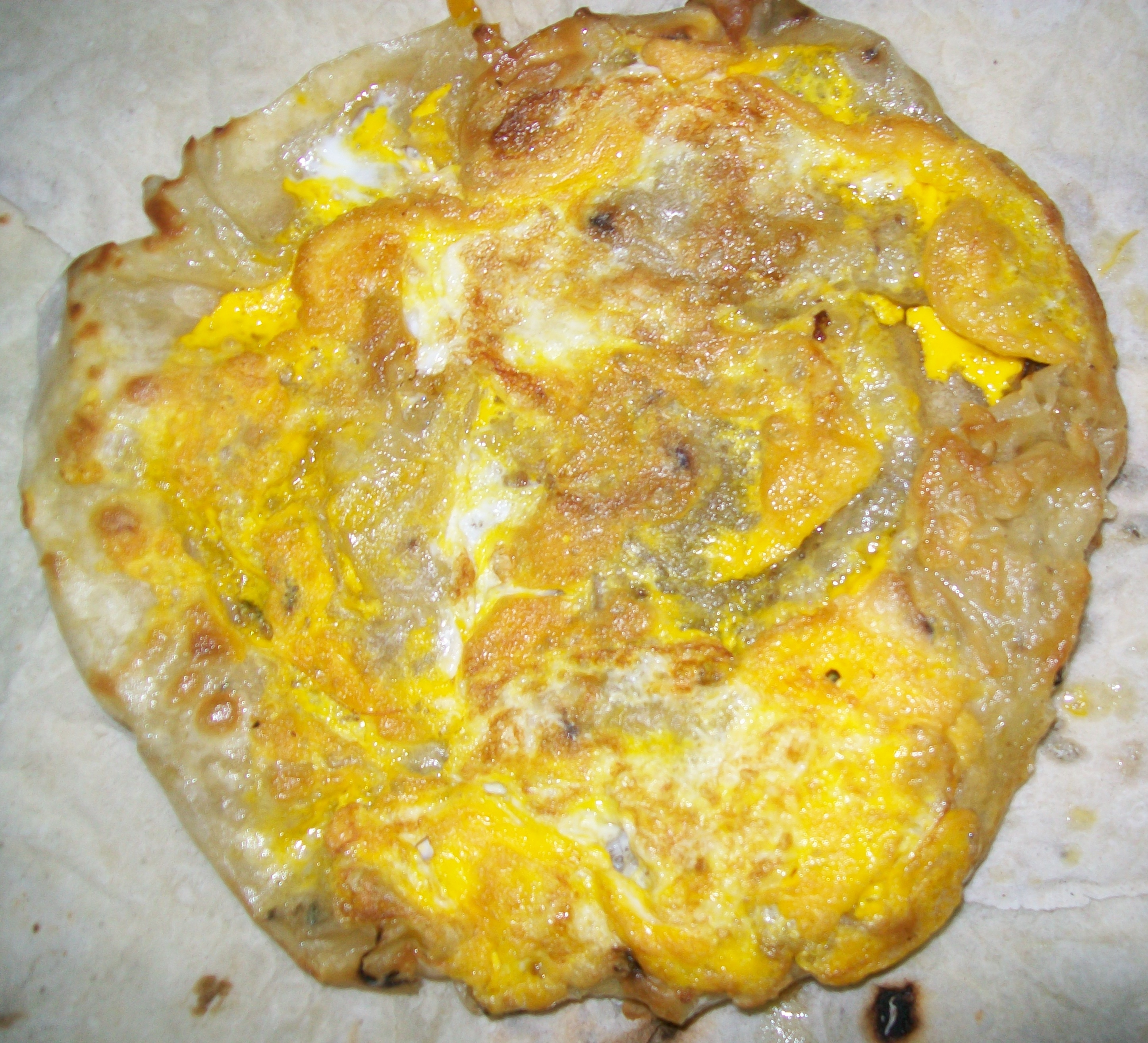 Dönderme.